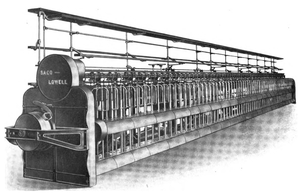 A 1920 vintage Saco-Lowell Roving frame, Saco-Lowell Shops, (Lowell, Massachusetts, Biddeford, Maine and Newton, Massachusetts)